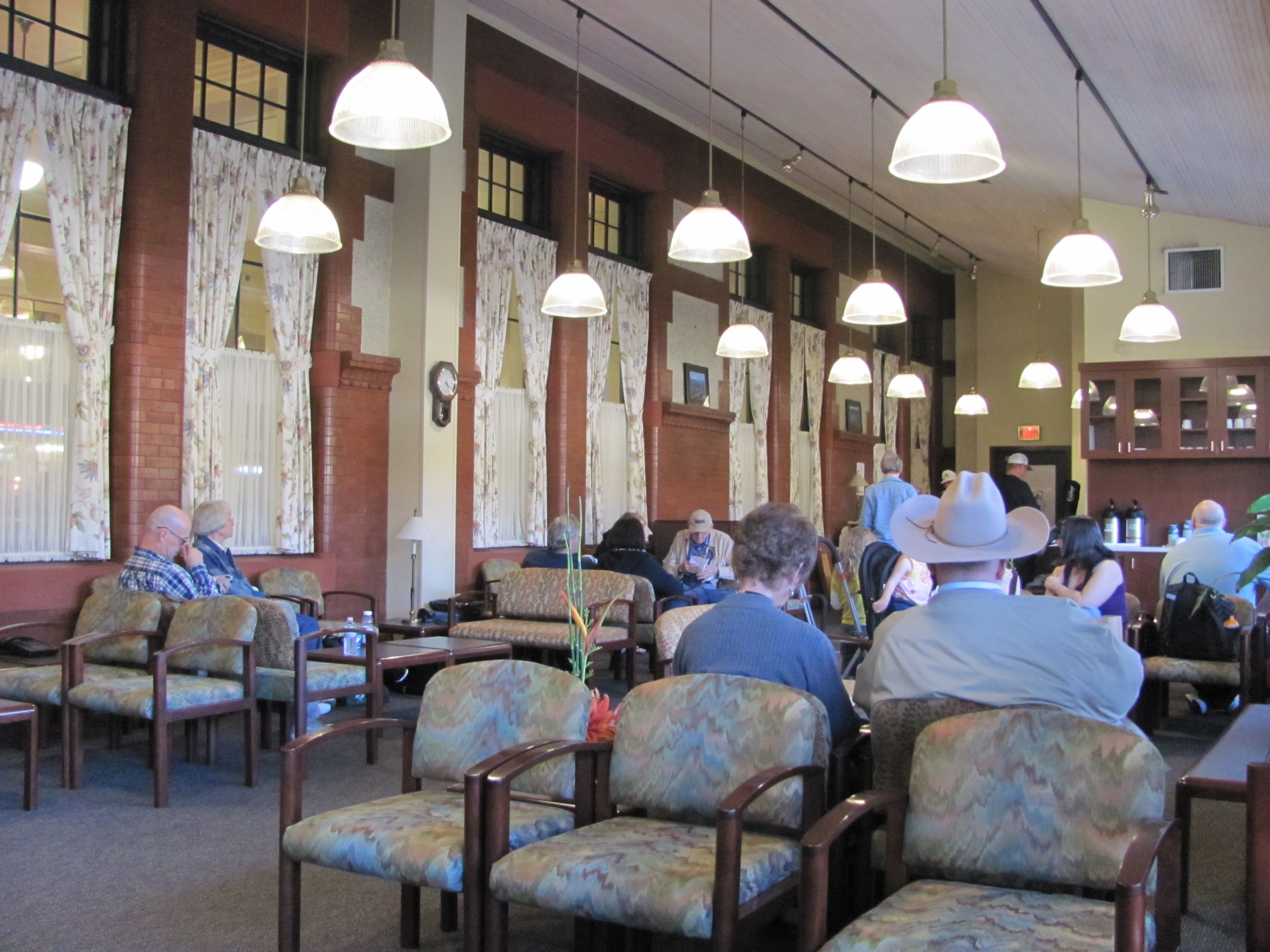 1st-class lounge of Portland, Oregon, Union Station